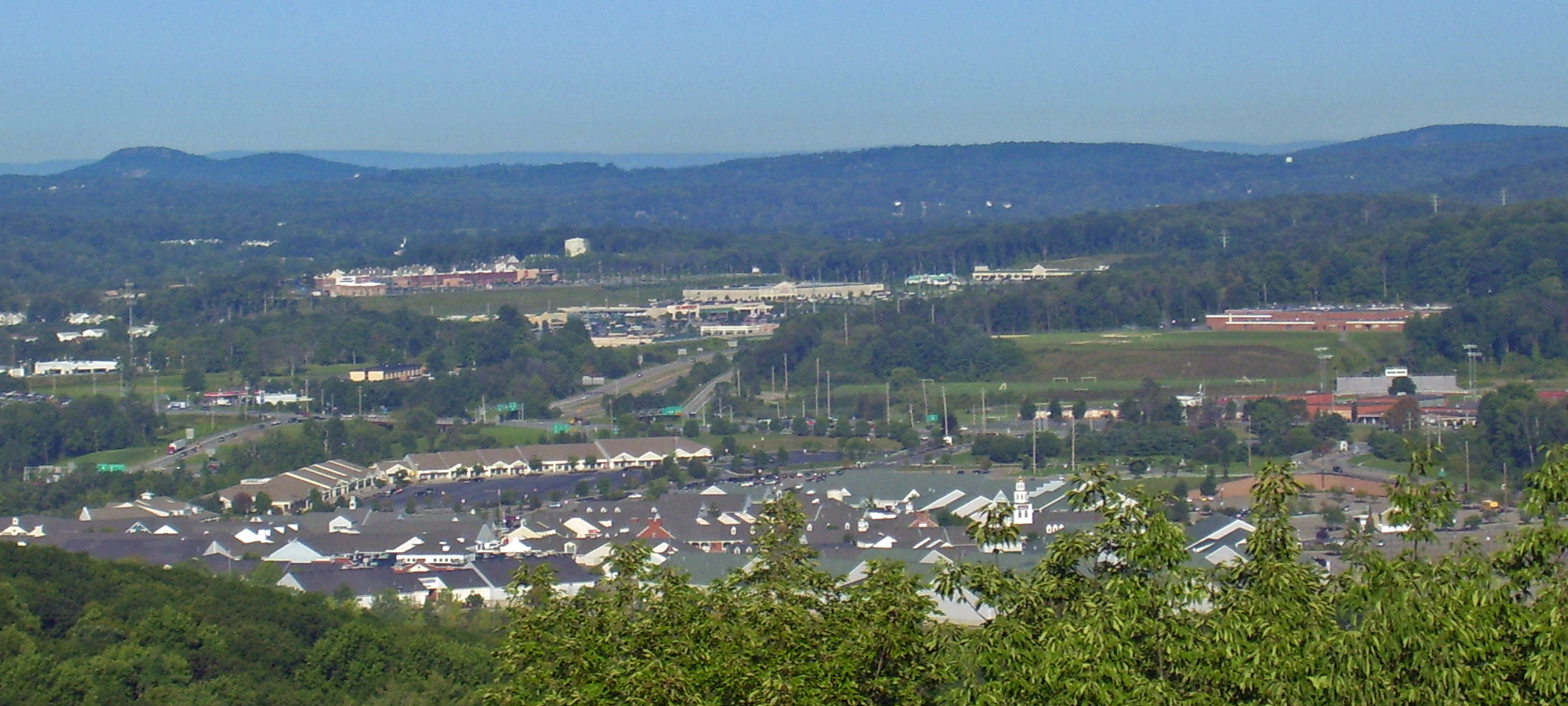 Woodbury Commons seen from overlook on westbound US 6.